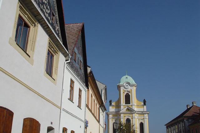 Úštěk (German name: Auscha), city in Northern Bohemia, Czech Republic